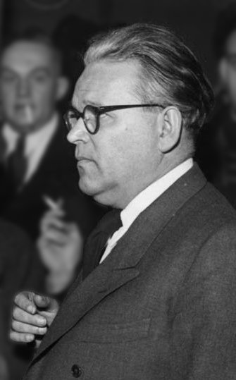 Factual corrections and alternative descriptions are encouraged separately from the original description. Additionally errors can be reported at this page to inform the Bundesarchiv. Original historic description: Hamburg, Prozess gegen Veit Harlan Illus-dpd Unser Bild zeigt Veit Harlan in einer Verhandlungspause. 16-3-49 [Herausgabedatum] 2965-49 Abgebildete Personen: * Harlan, Veit: Schauspieler, Filmregisseur, Deutschland